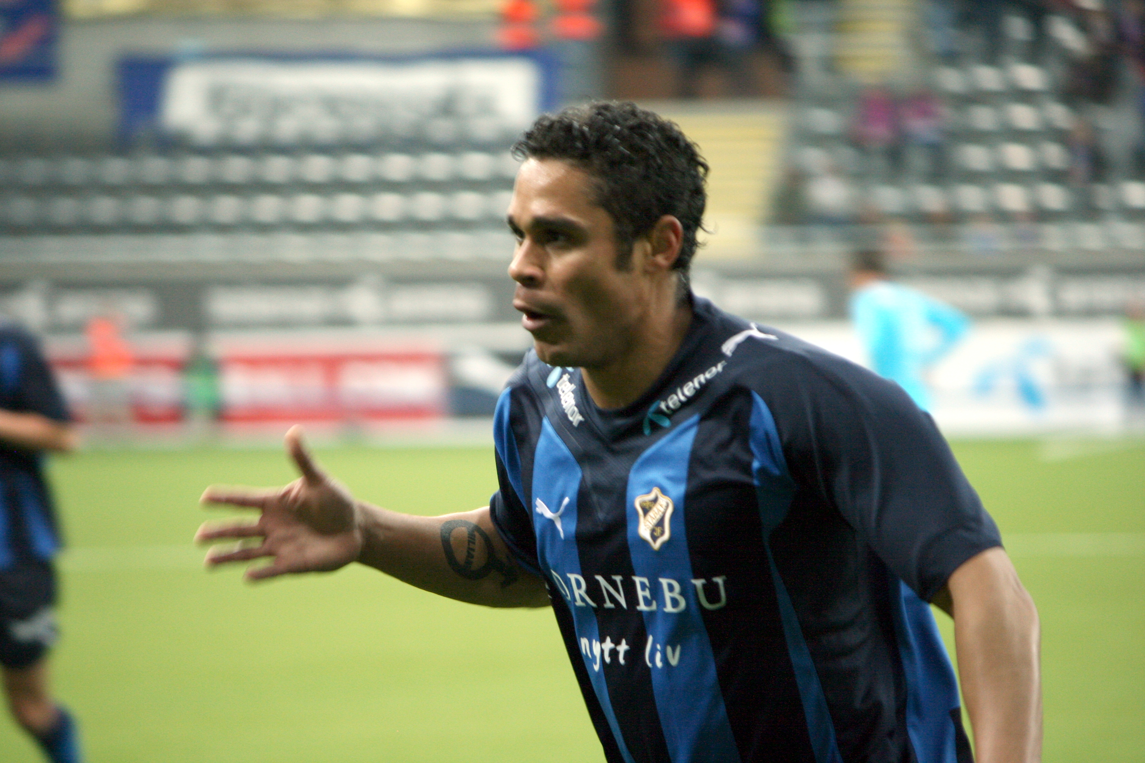 Swedish footballer Daniel Nannskog.